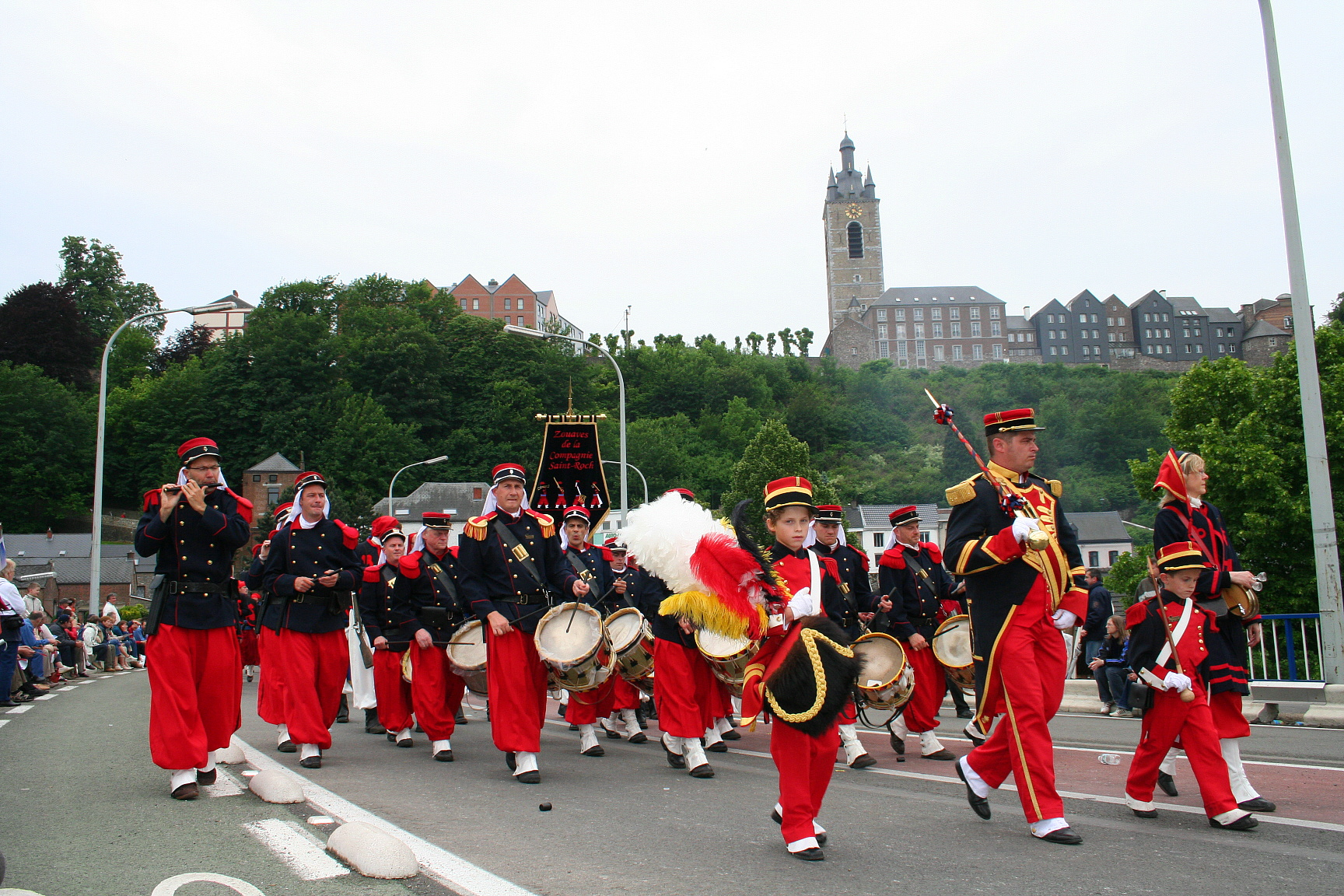 Thuin(Belgium), the 1st company of zouaves in the St. Roch procession.